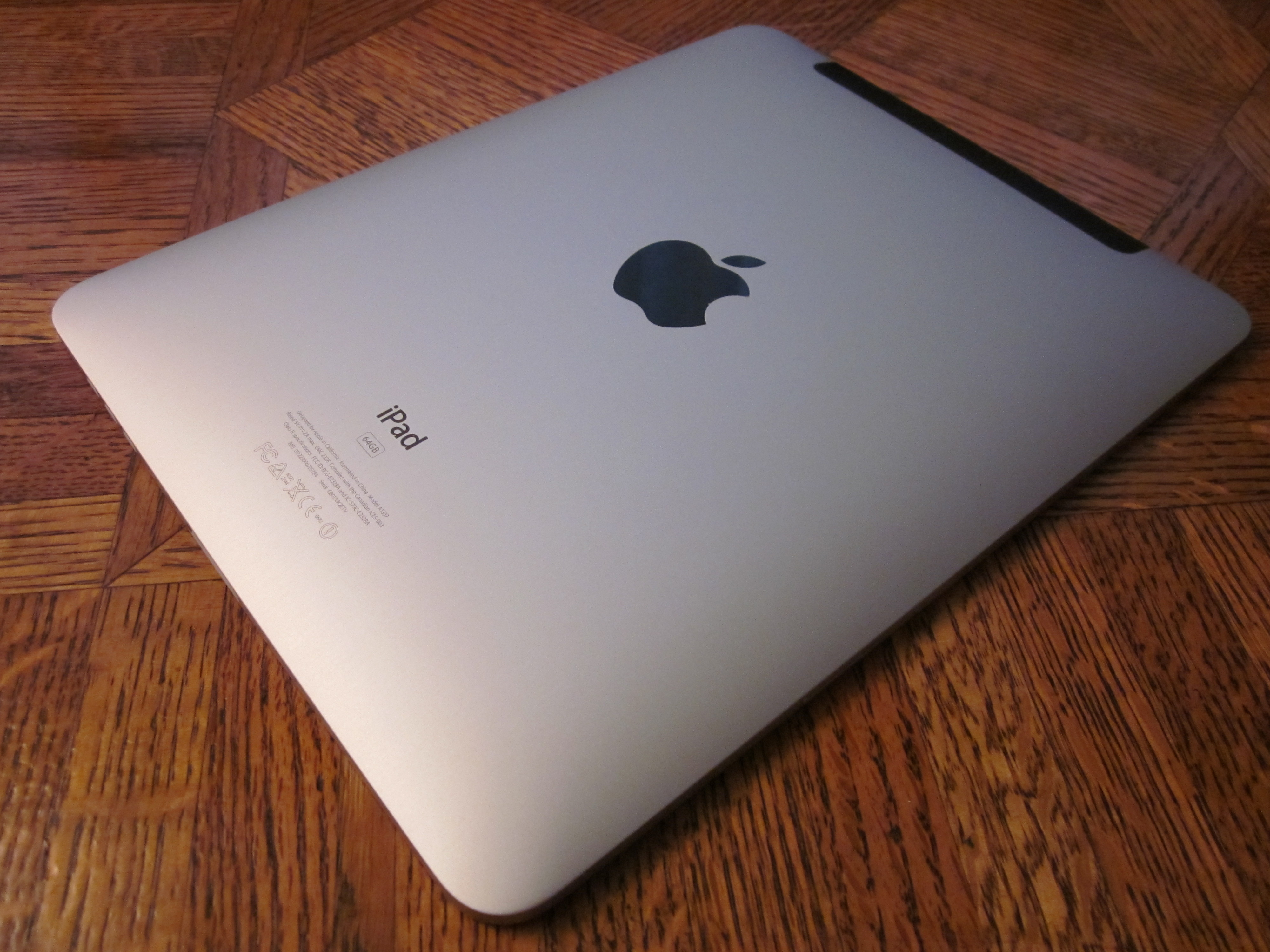 The underside of a 64 GB iPad.